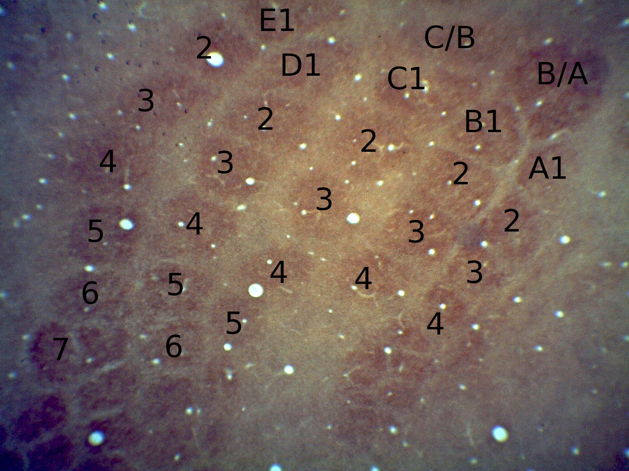 This is the PSMBF sub-field of the “barrel field” in the rat somatosensory cortex. Each “barrel” received input from one major whisker on the snout of the rat. The tissue in the image has been stained with cytochrome oxidase and is 50μm thick. Layer IV. White circles are empty areas left by emptied blood vessels. Barrels have been labeled to match with their correspondent vibrissa. (Cartoon of vibrissa not shown.)